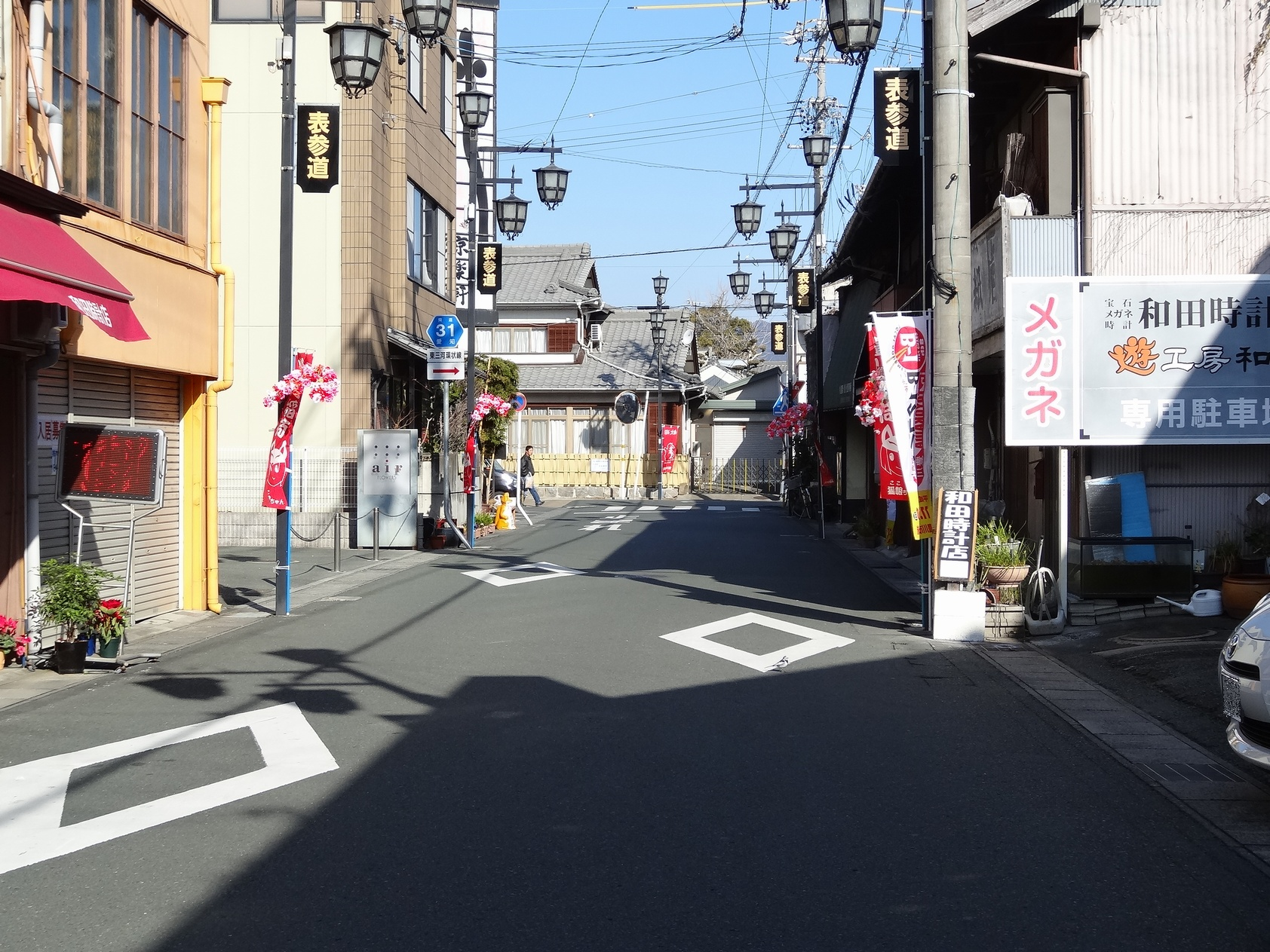 Aichi Prefectural Road No.31 Higashi-Mikawa Circle Line (Around the "JR Toyokawa Station", Toyokawa City, Aichi, Japan)